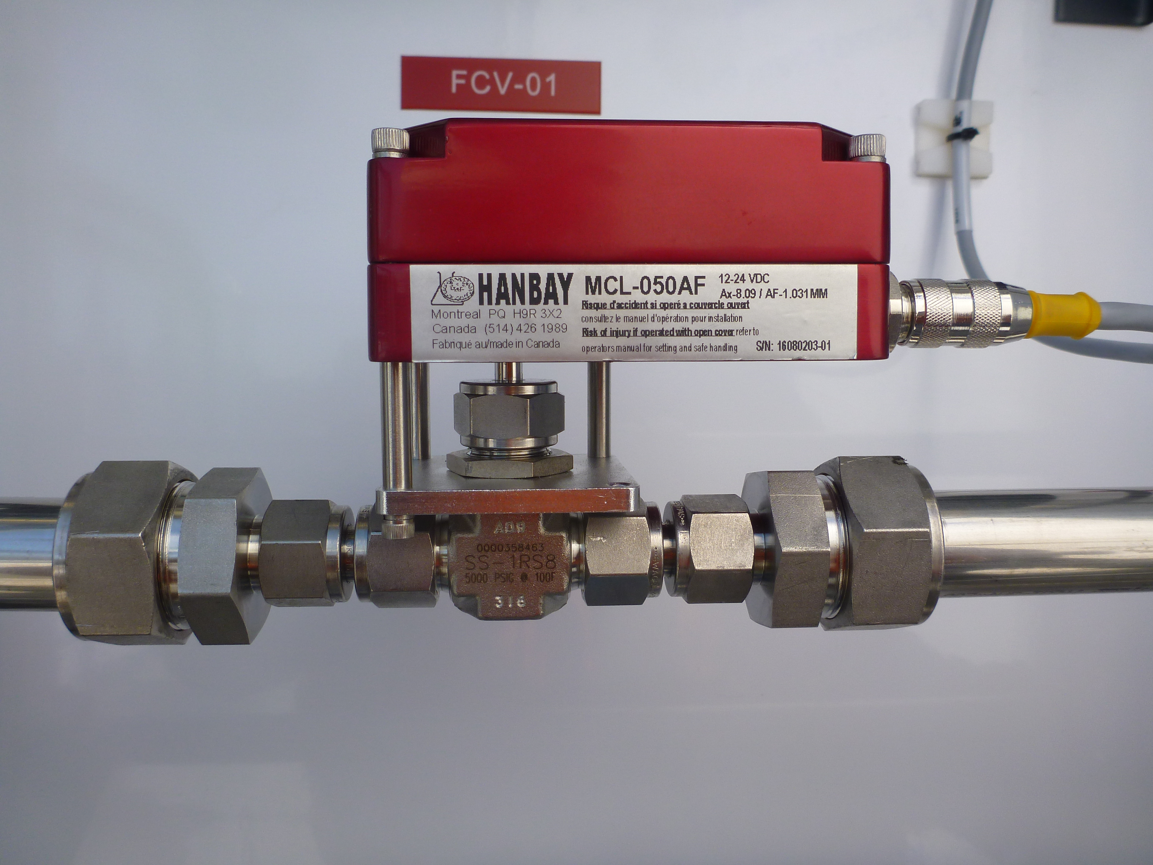 Hanbay electric valve actuator proportionally controlling an ½ Swagelok needle valve